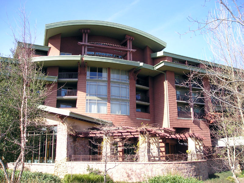 Disney's Grand Californian Hotel by Ellen Levy Finch (user elf) feb 2006